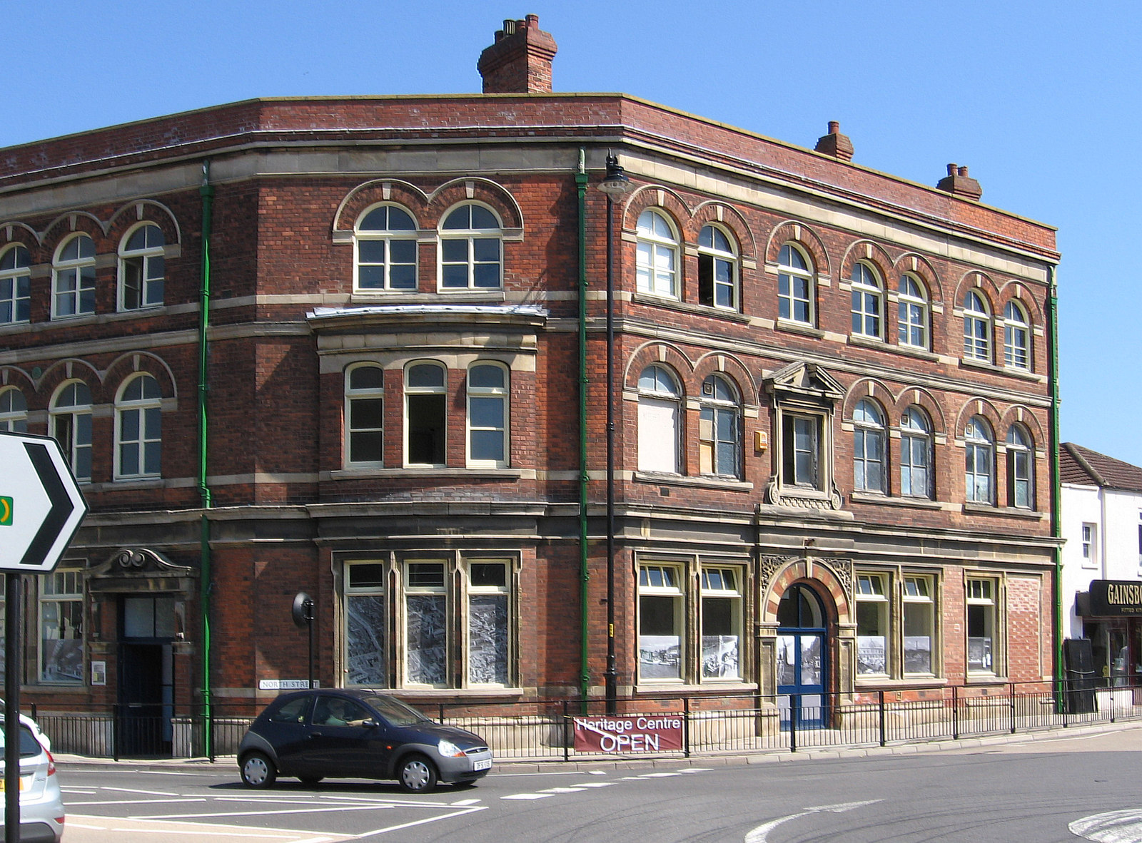 Gainsborough - Heritage Centre